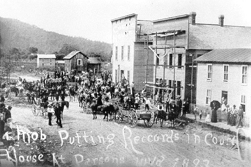 The vigilantes from Parsons, West Virginia, putting the captured county records from St. George into the temporary courthouse building in Parsons on the morning of August 2, 1893.